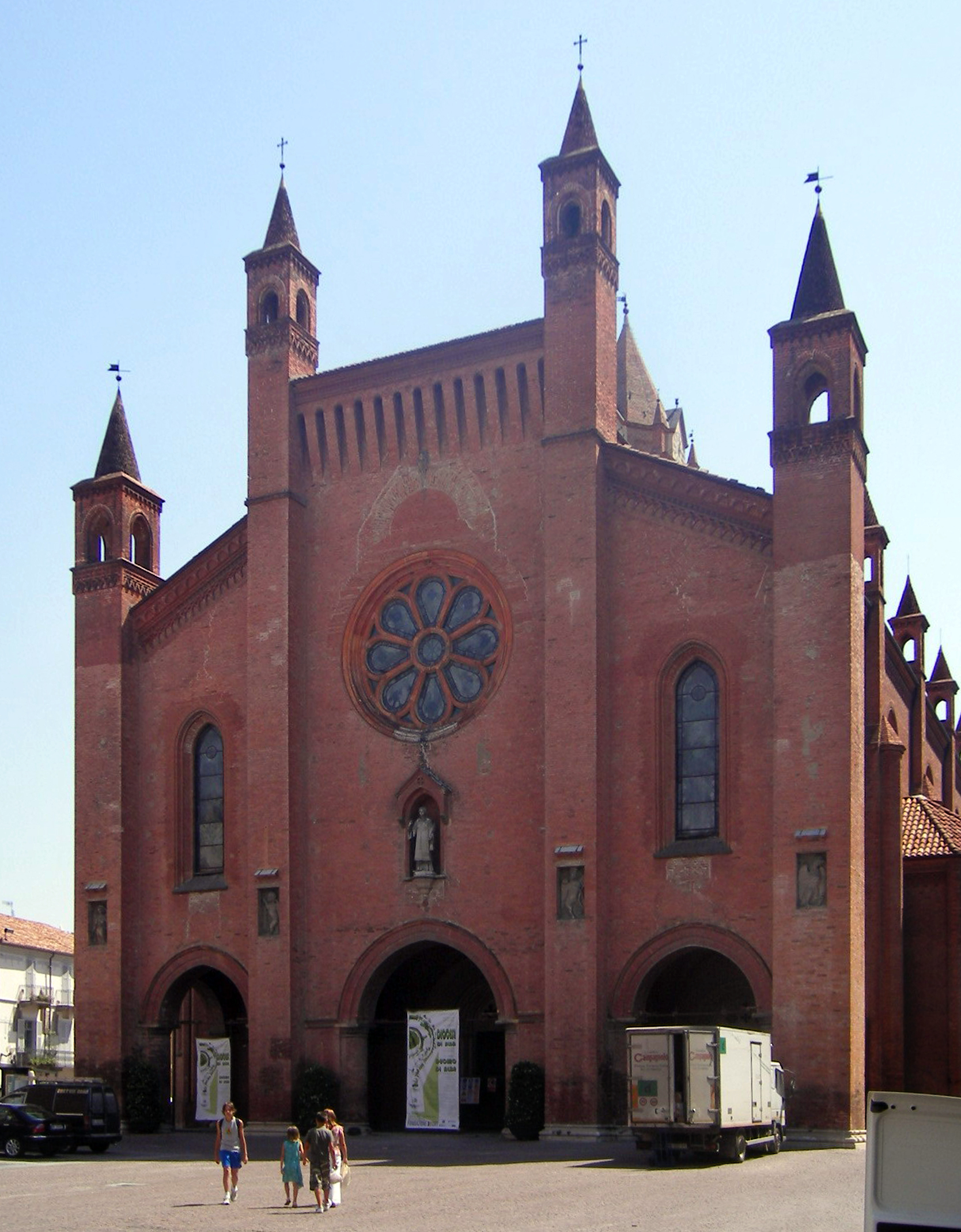 Alba Cathedral, façade